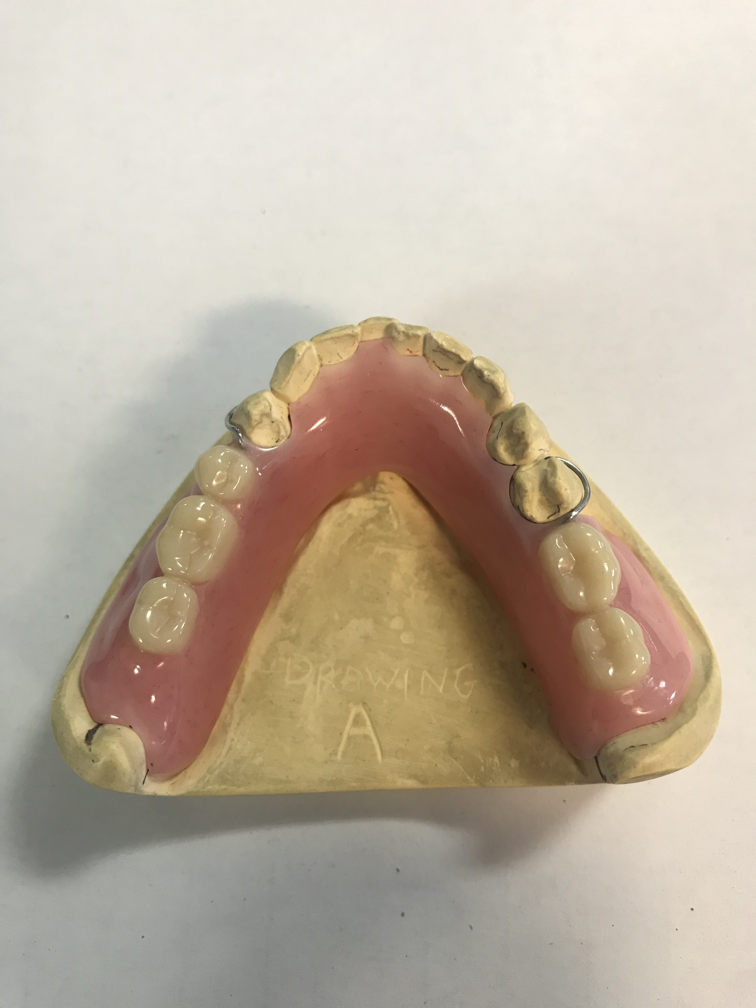 The image shoes a U shaped denture